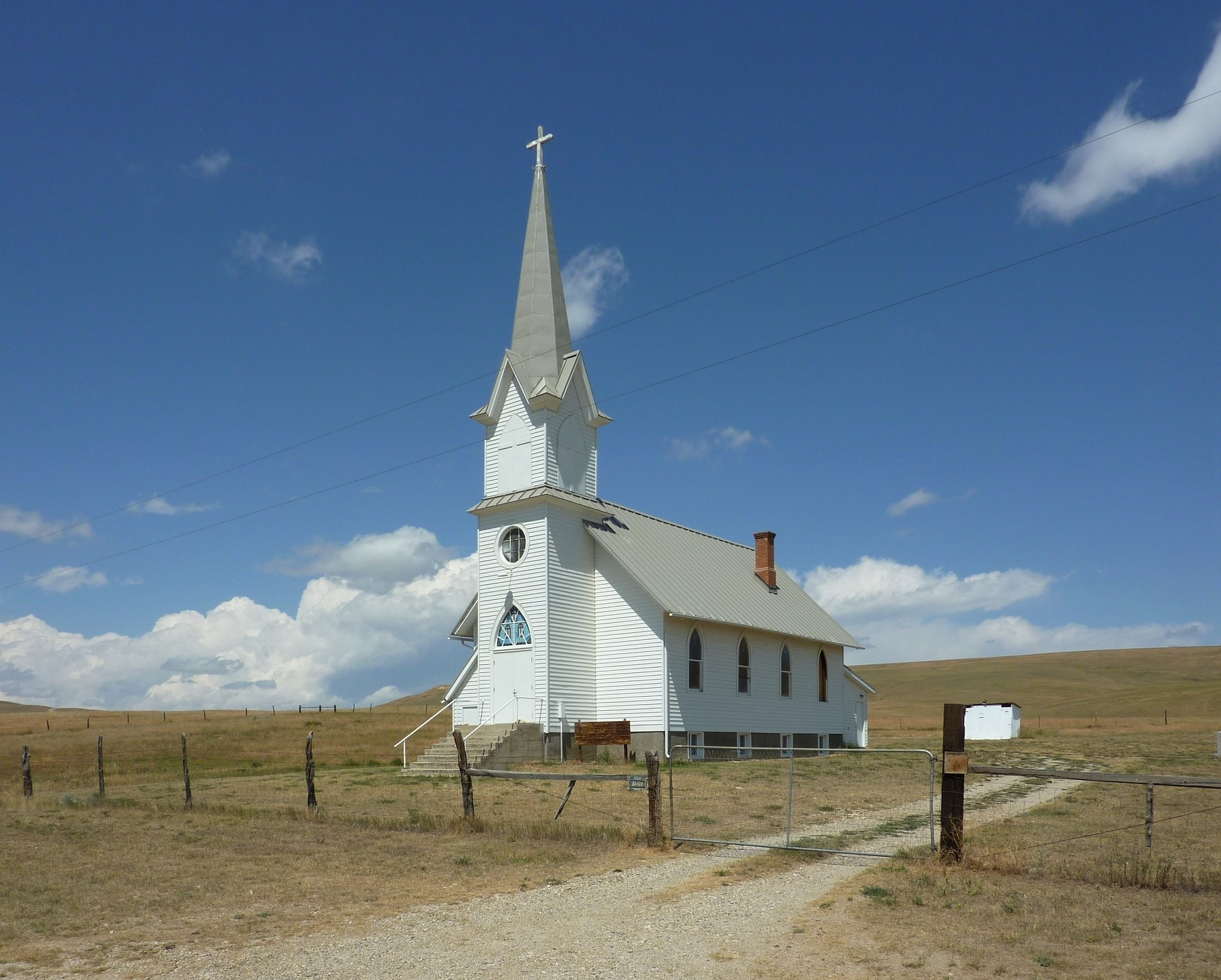 St Olaf Lutheran Church, near Red Lodge, Montana